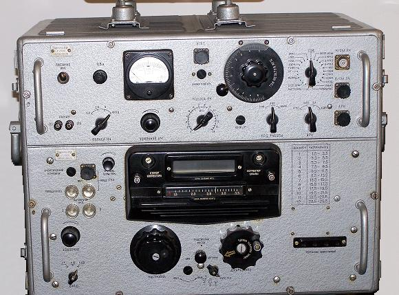 Soviet long range communications and intelligence HF receiver R-250M2, late 1950s